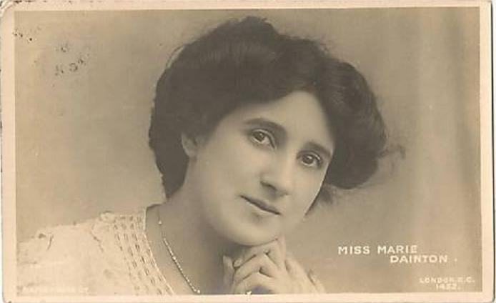 Photograph of Marie Dainton (c.1910)